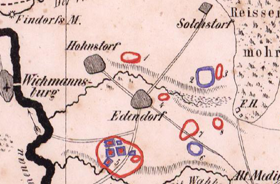 Megalithic tombs near Edendorf